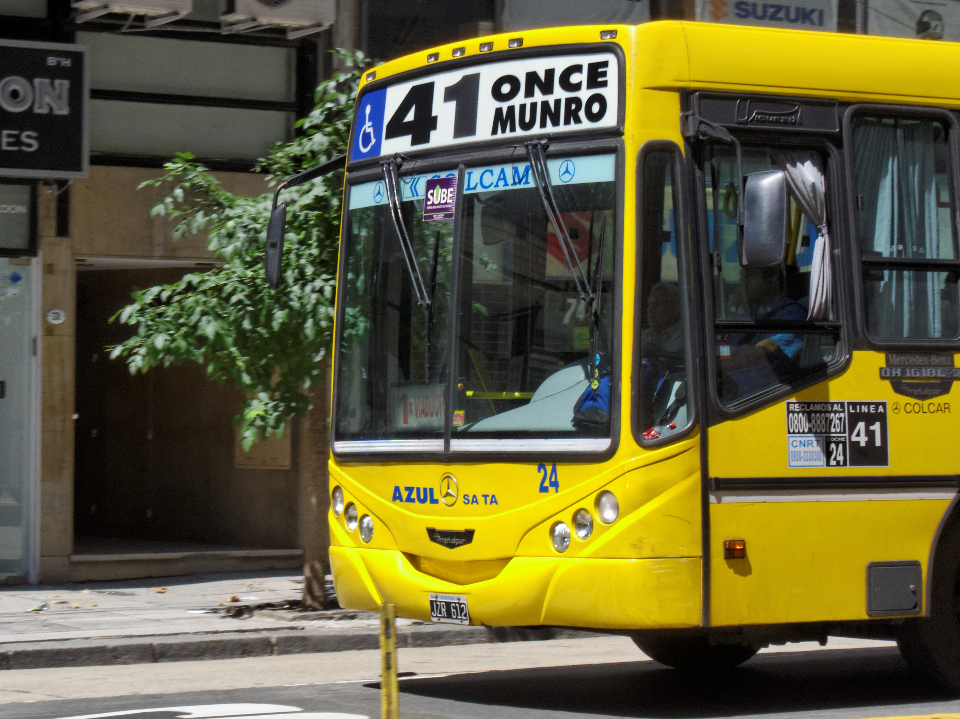 Metalpar Iguazú II bus (reg. JZR 612, #24) with Mercedes-Benz OH 1618 L-SB chassis in Buenos Aires, Argentina. Colectivo, line 41, Azul S.A.T.A. (Rosario Bus S.A.) operator.